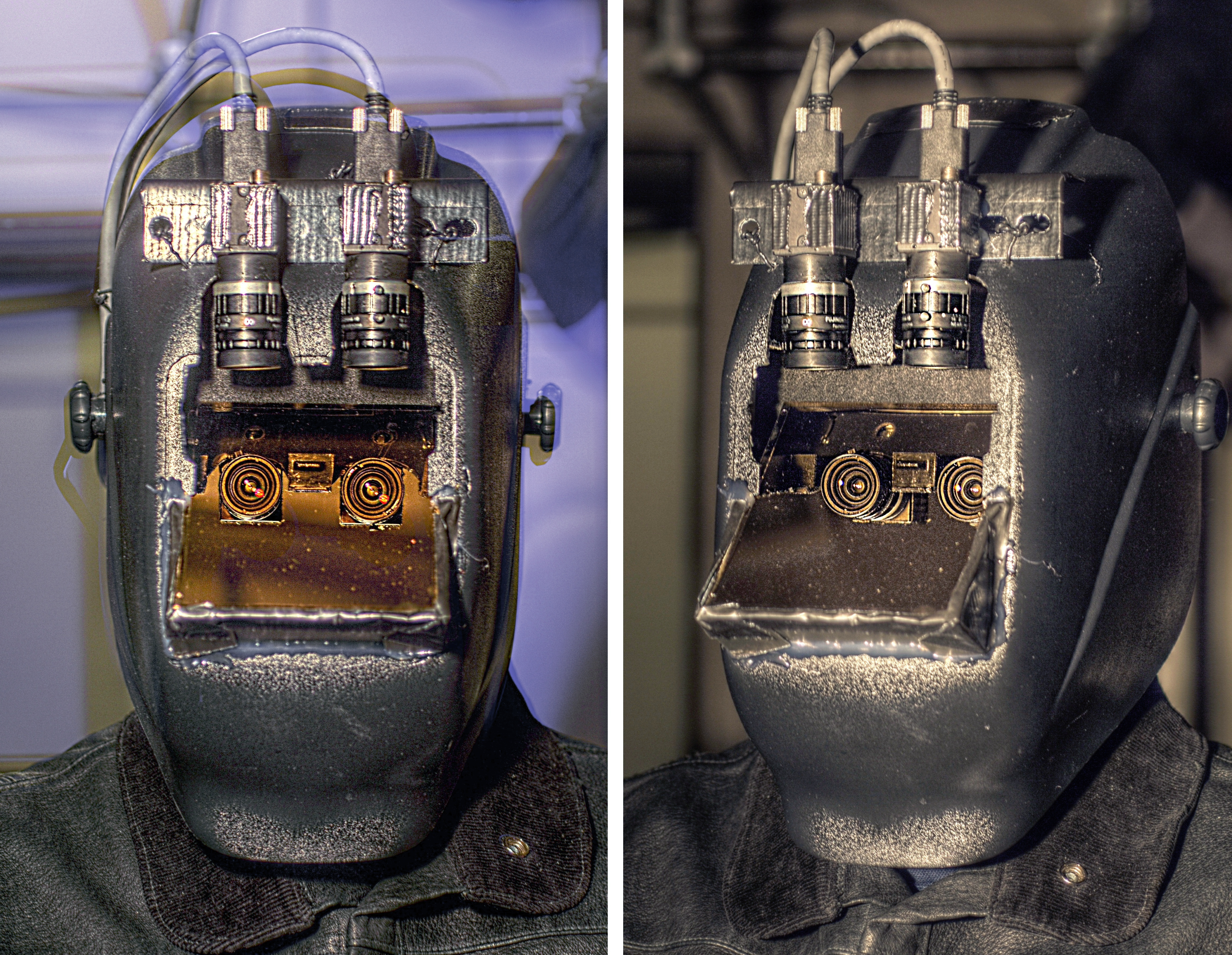 EyeTap Digital Eye Glass welding helmet for Augmediated Reality with HDR vision